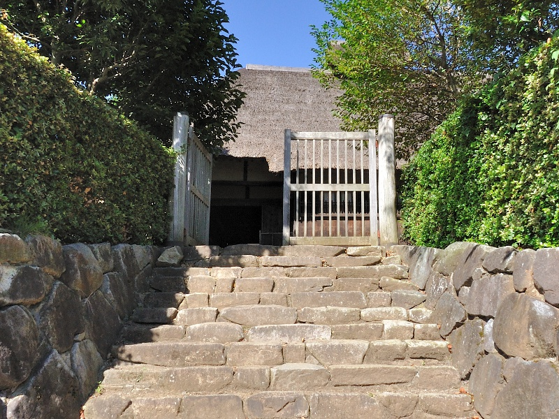 Hitachi Fudokinooka Aizu House Gate